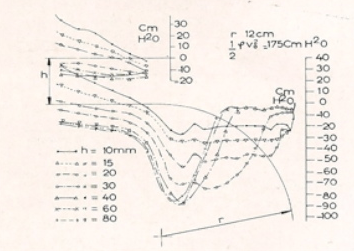 Measuring surface pressure along a circular wall of radius r = 12 cm, deflecting a jet Reynolds number 106 of width h. The pressure begins to decrease due to the transverse gradient to an angle 9° along the wall, then remains constant if the h/r ratio of the width of the jet to the radius is less than 0.25 along an additional angle which is "true Coandă effect", and finally increases back to the ambient pressure again over another angle 9°. If the h/r ratio is more than 0.5, the local effects 2 x 9° only occur and there is "no true Coandă effect". Experiments made by the author and J. Liermann in the laboratory of the author, SNECMA, published in: Kadosch M., "Déviation d'un jet par adhérence à une paroi convexe" in: Journal de Physique et Le Radium, avril 1958, Paris, p.9A.